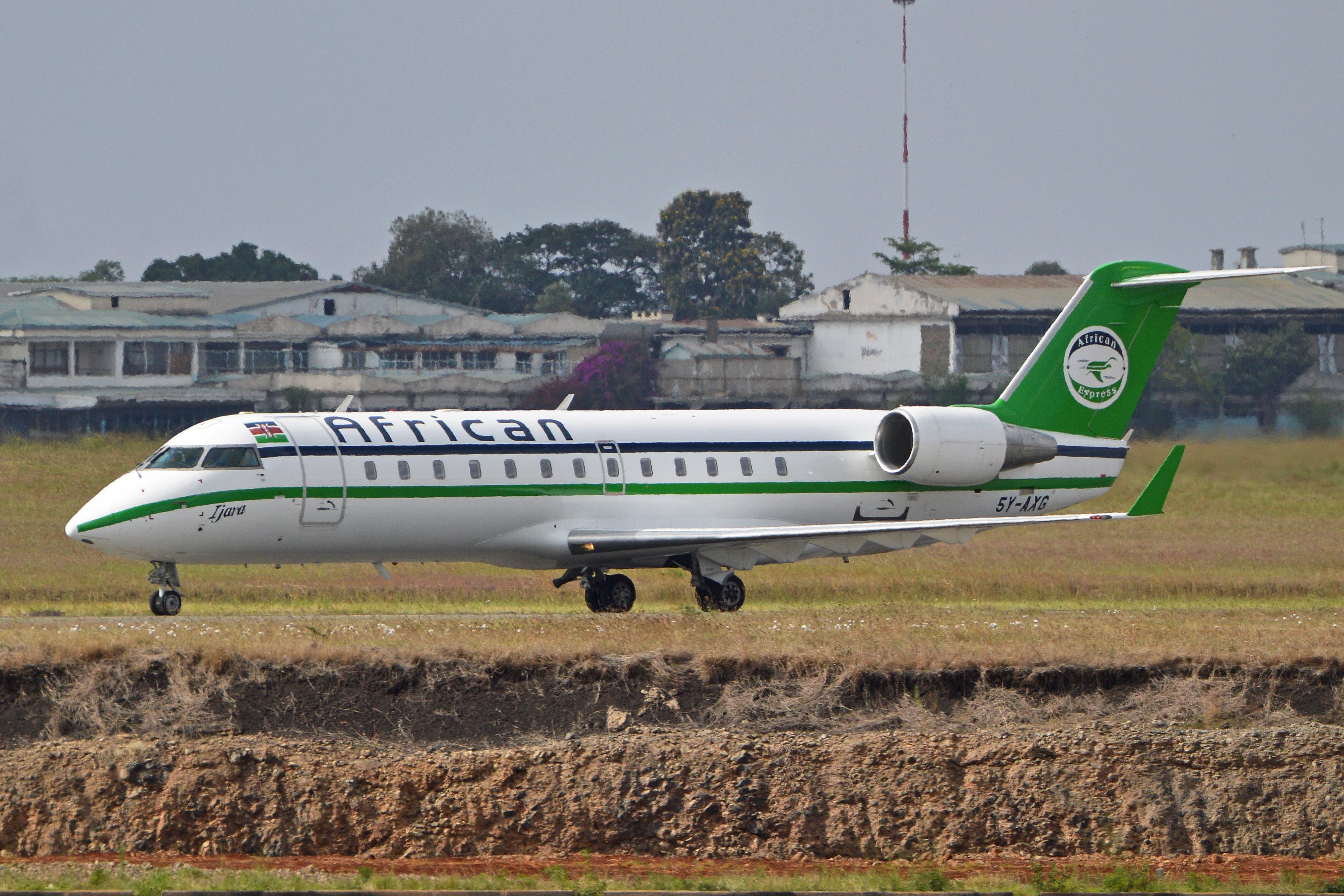 c/n unknown (it's not listed anywhere!). Seen taxiing in at Nairobi's Jomo Kenyatta International Airport, Kenya. 26-9-2014